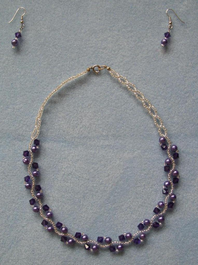 Necklace and earrings, self-made during a workshop (Farbenspiel, Aachen), with Swarovski beads and round beads.